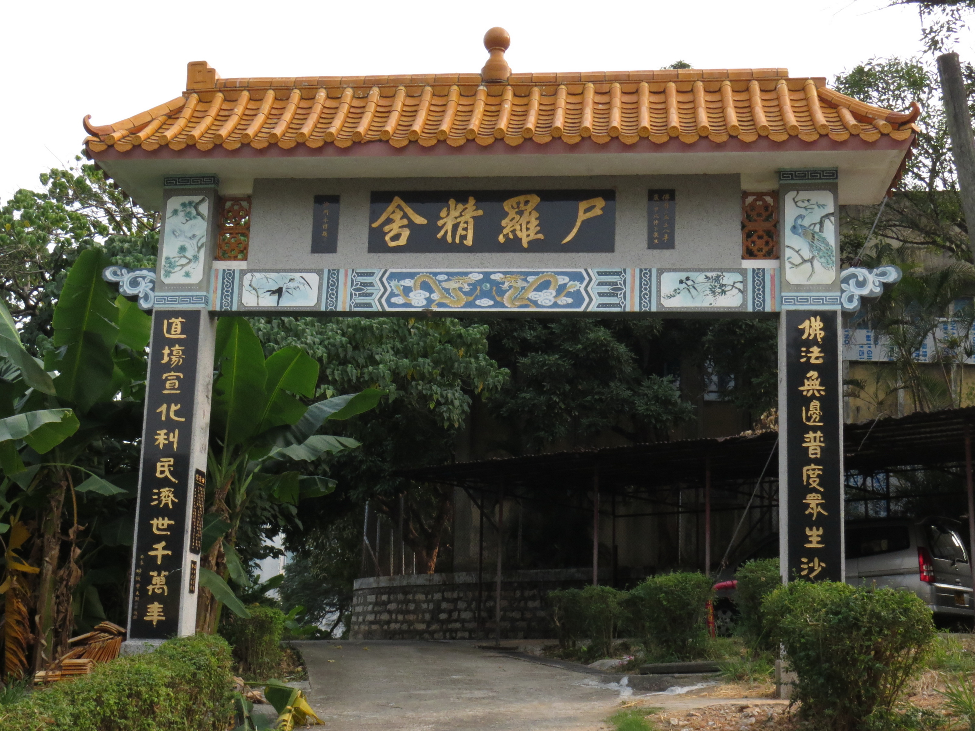 Sze Lo Temple, Tuen Mun, New Territories, Hong Kong.